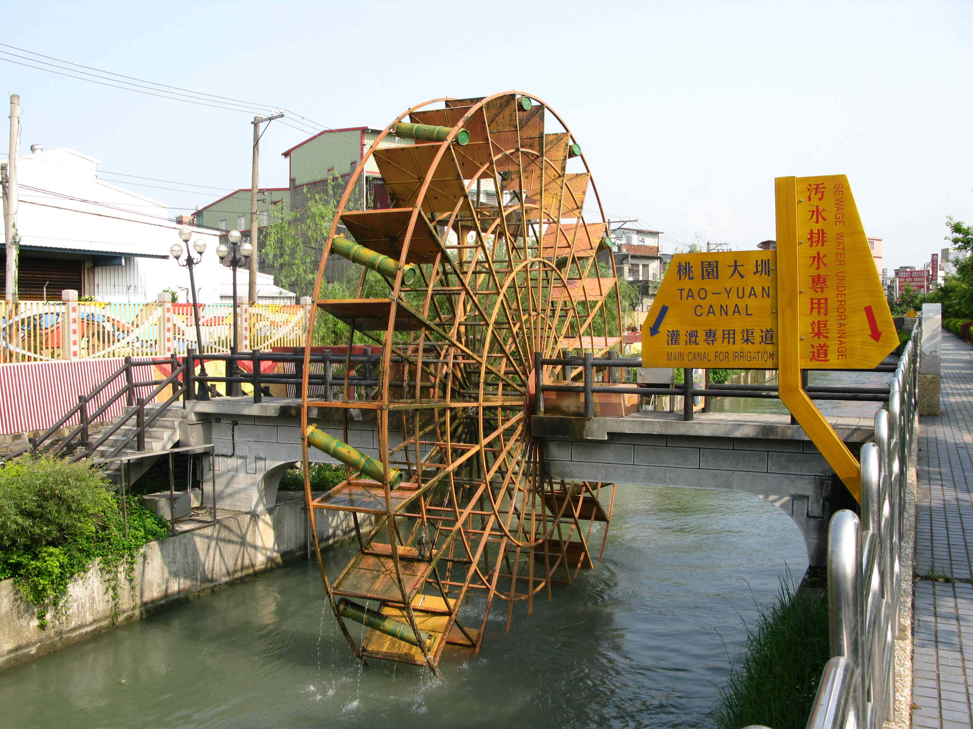 Taoyuan Canal - The Water Mill, Taiwan